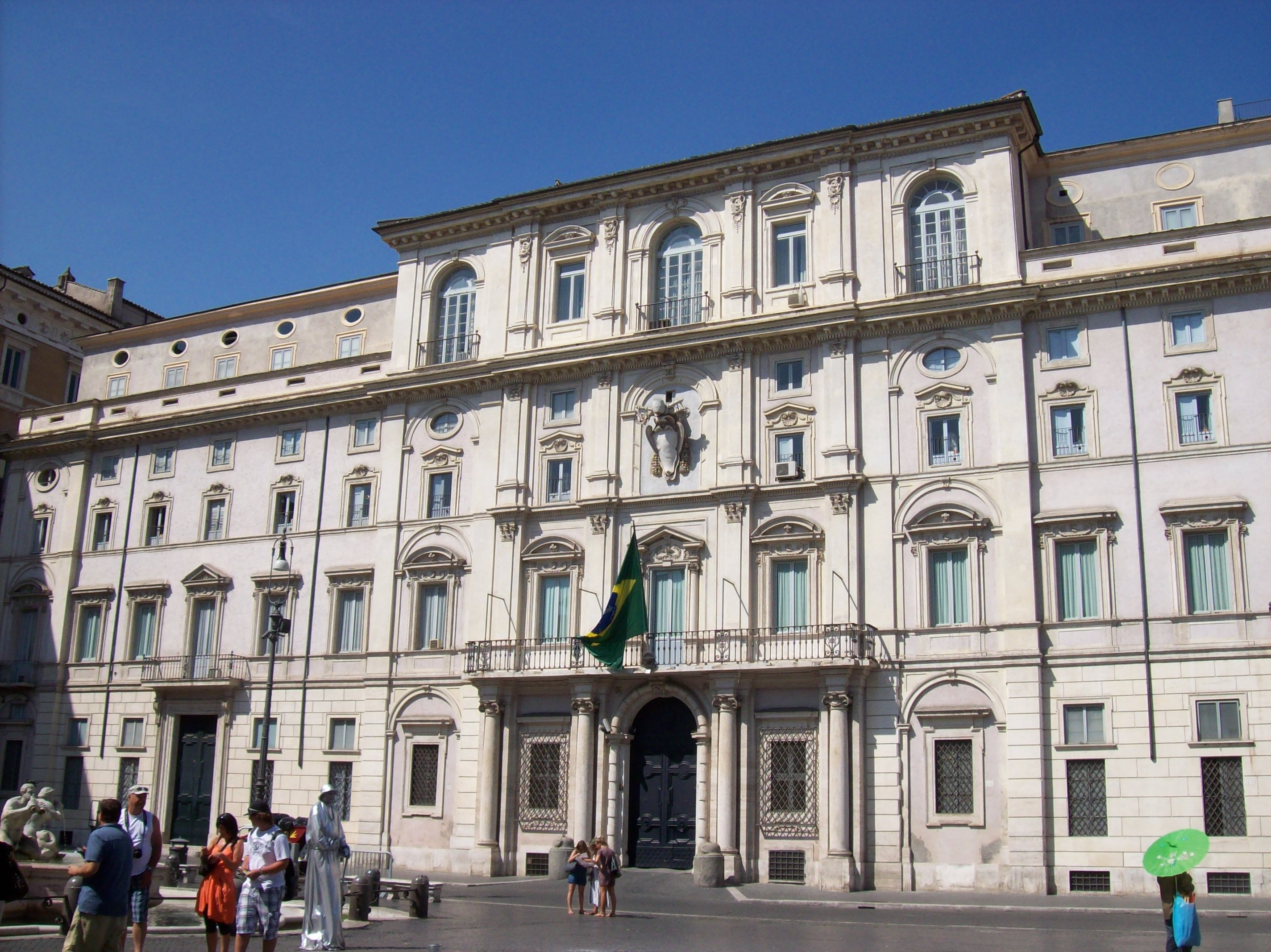 Palazzo Pamphilj in Rome, seat of the Brazilian Embassy in Italy